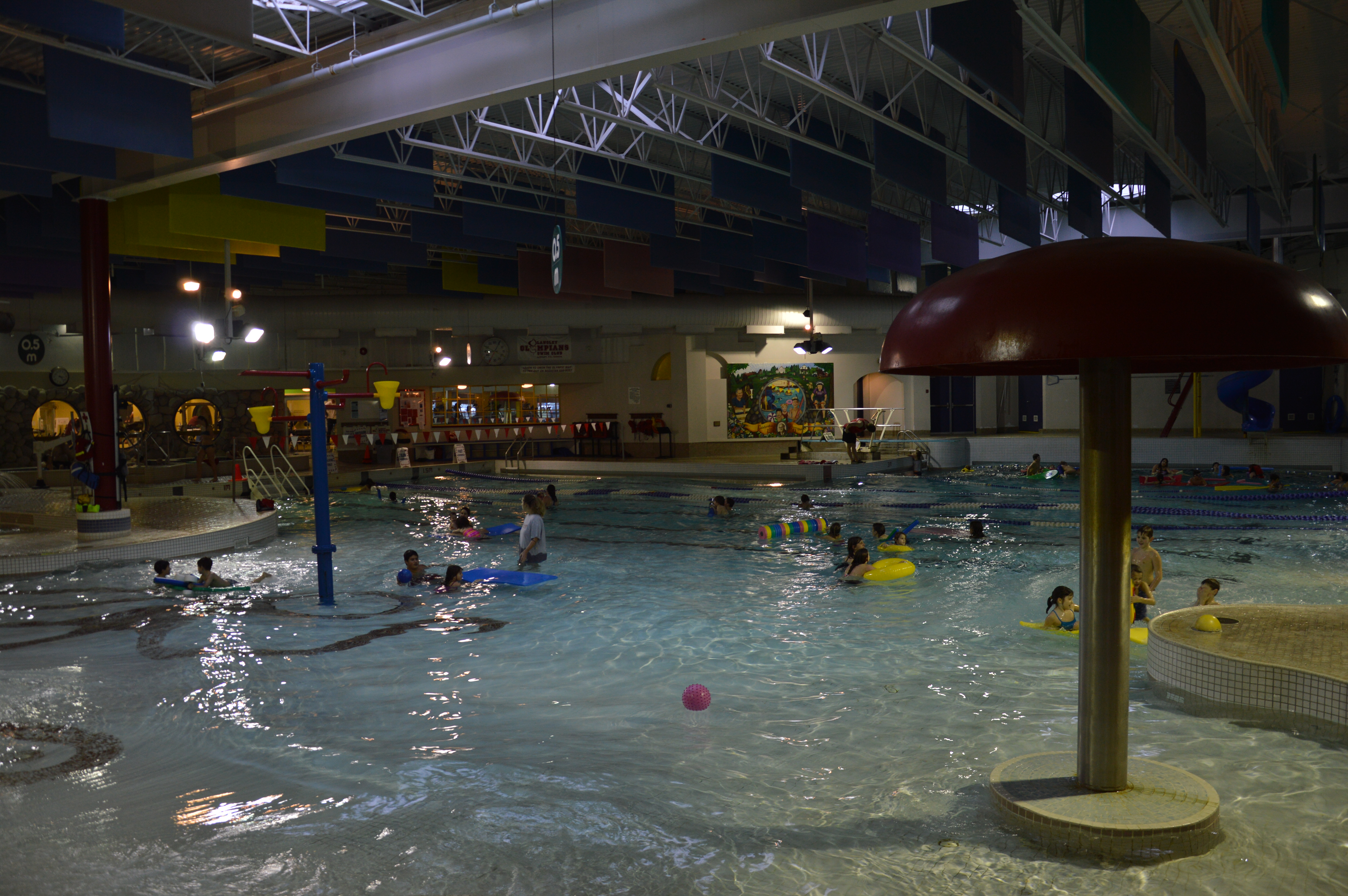 The swimming pool at W. C. Blair Recreation Centre in the Murrayville neighbourhood of Langley, British Columbia, Canada.